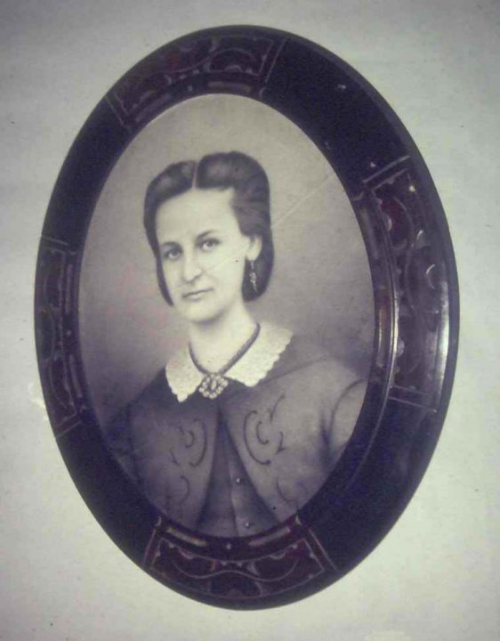 Magdalena_Molina_y_Bazán.jpg